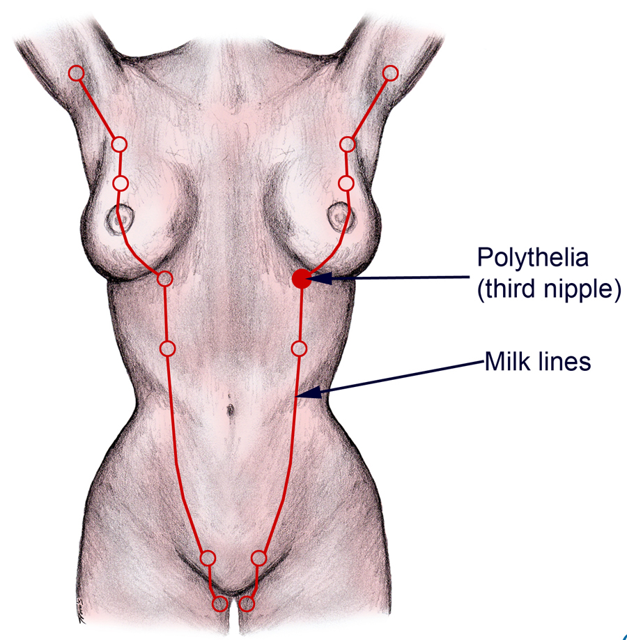 Natural milk lines